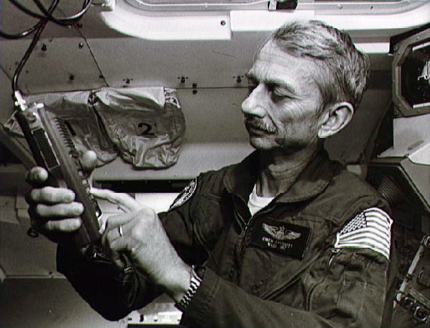 Astronaut Owen Garriot during STS-9 training with Ham Radio View of Astronaut Owen Garriot during STS-9 training with Ham Radio he will operate during the mission.